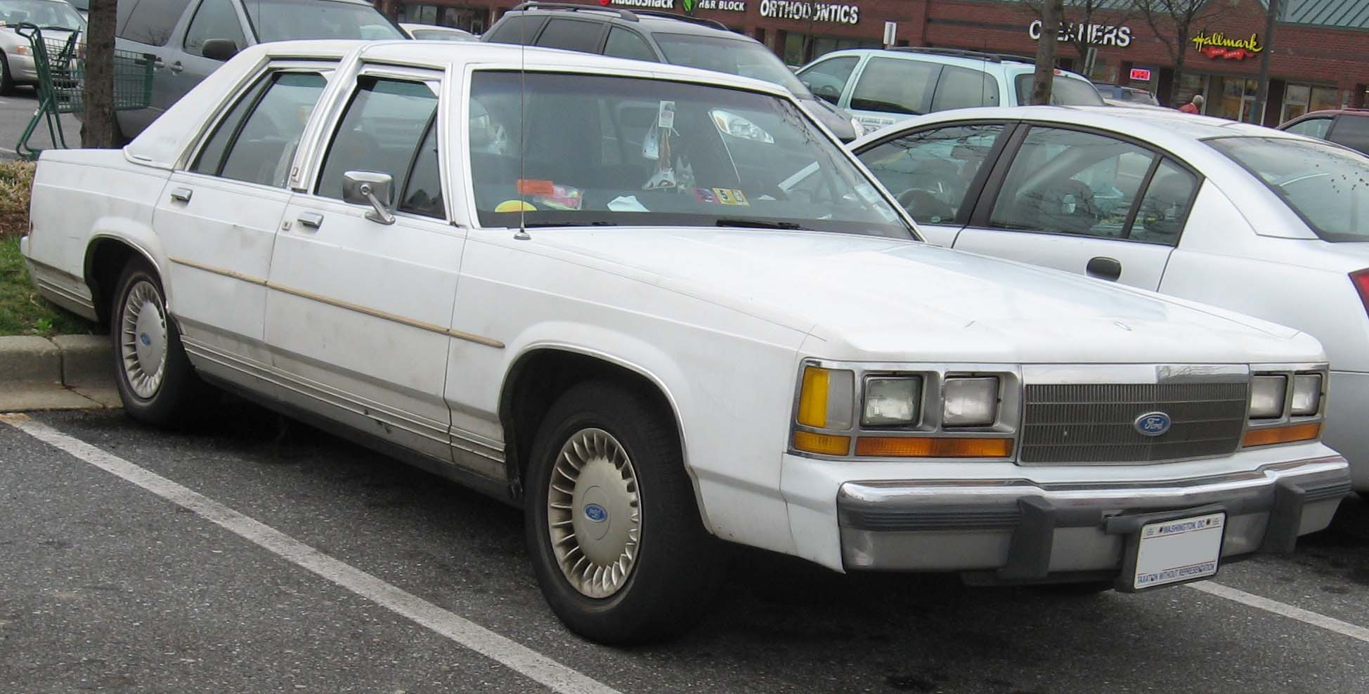 1988-1991 Ford LTD Crown Victoria photographed in USA.